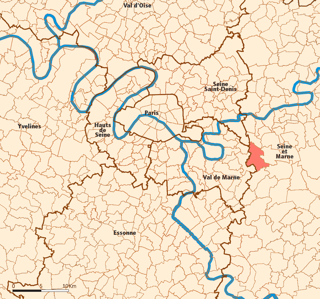 Created map myself.